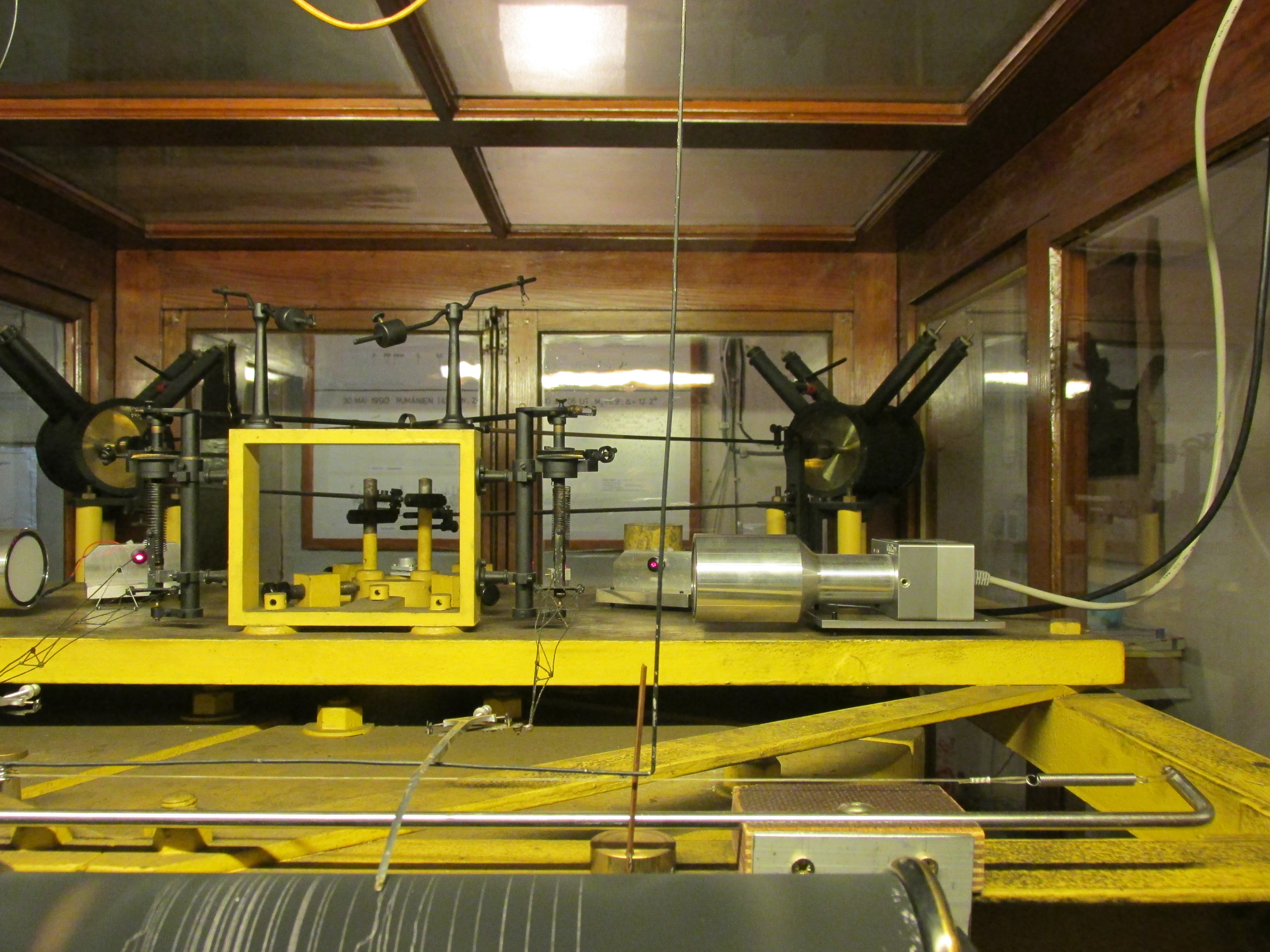 Seismometer, Göttingen, Germany check usage